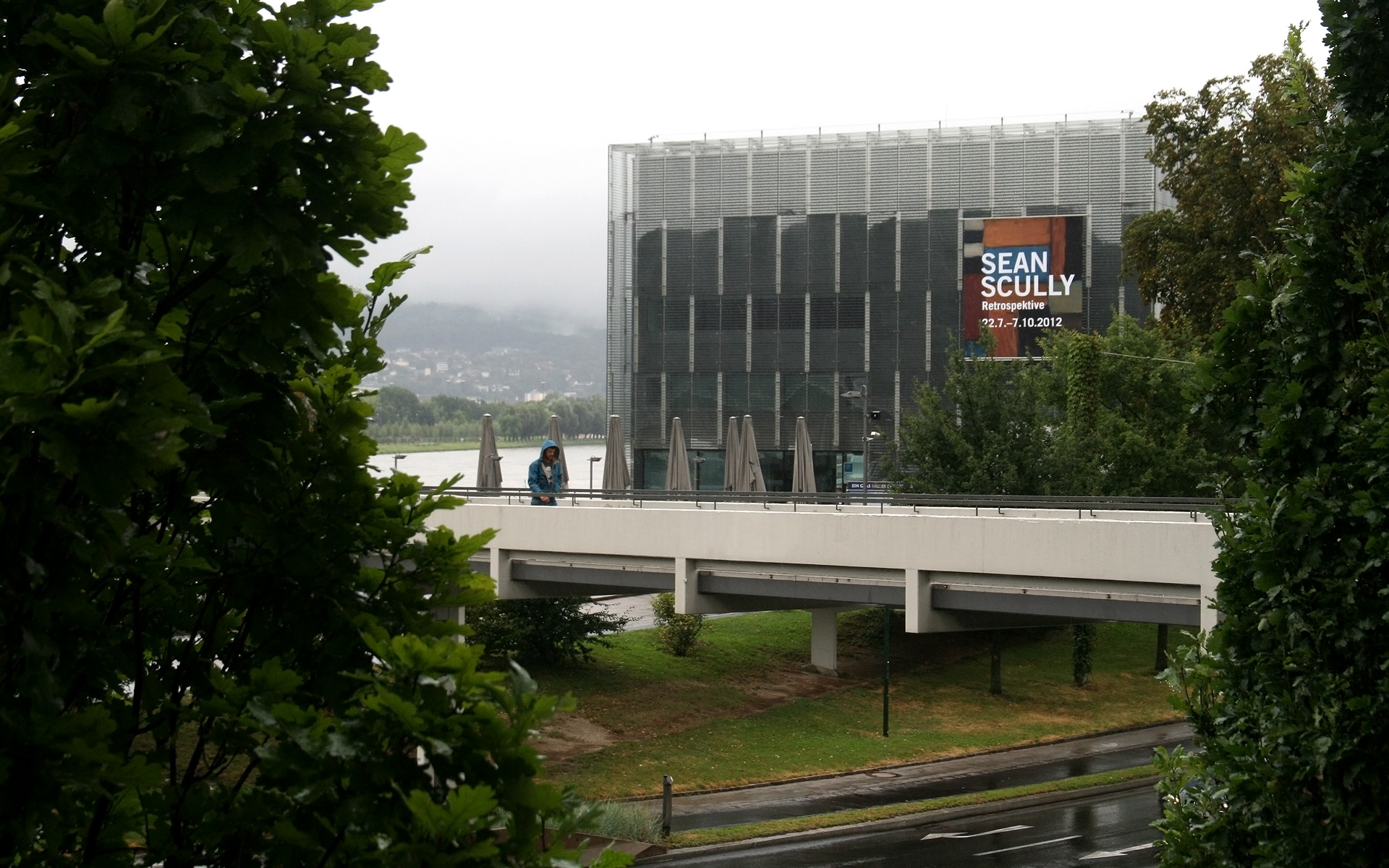 Lentos Art Museum in Linz, Upper Austria.